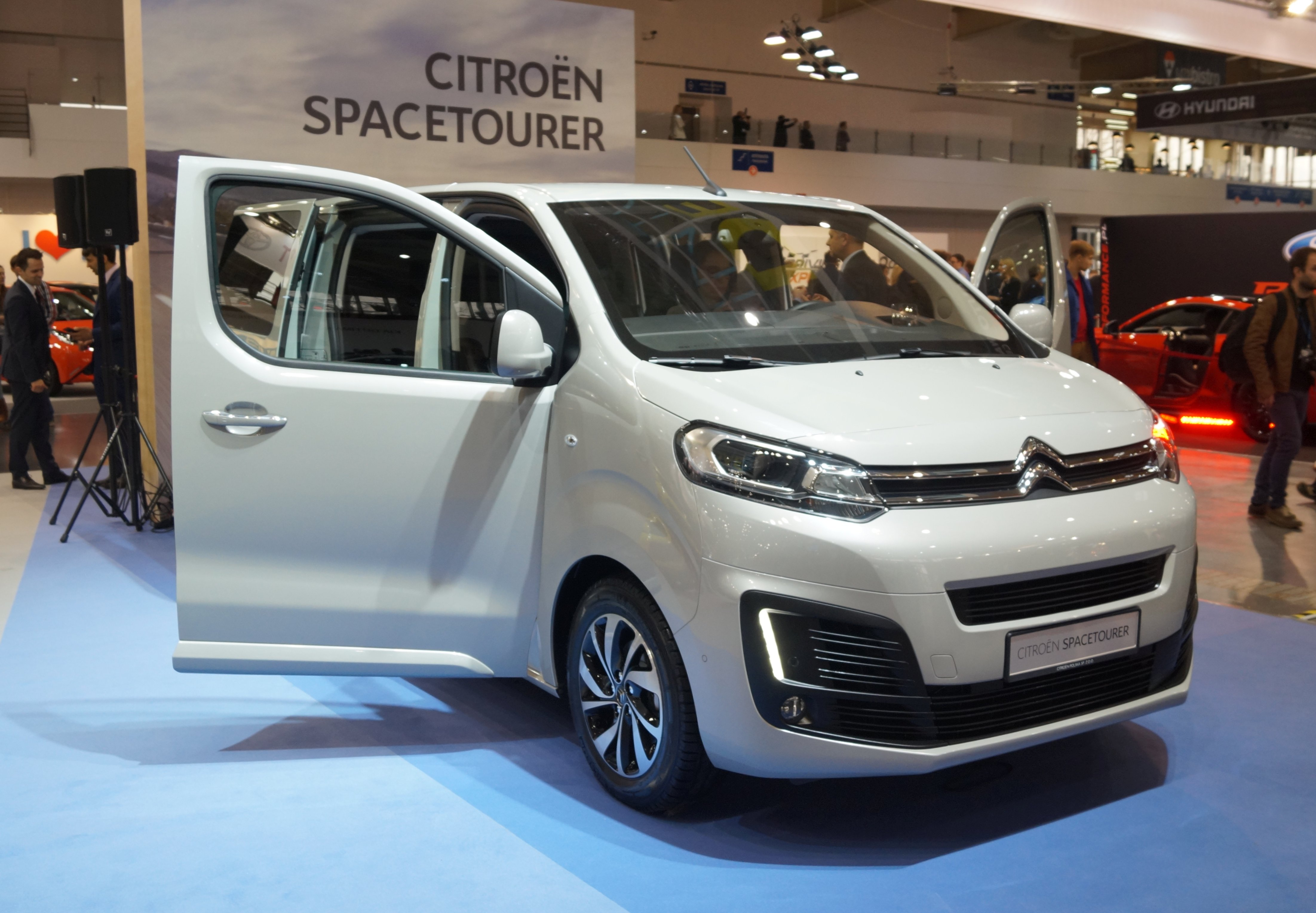 The making of this document was supported by Wikimedia Polska Association, within Wikigrant no. WG 2016-10. Citroën Spacetourer na Motor Show Poznań 2016